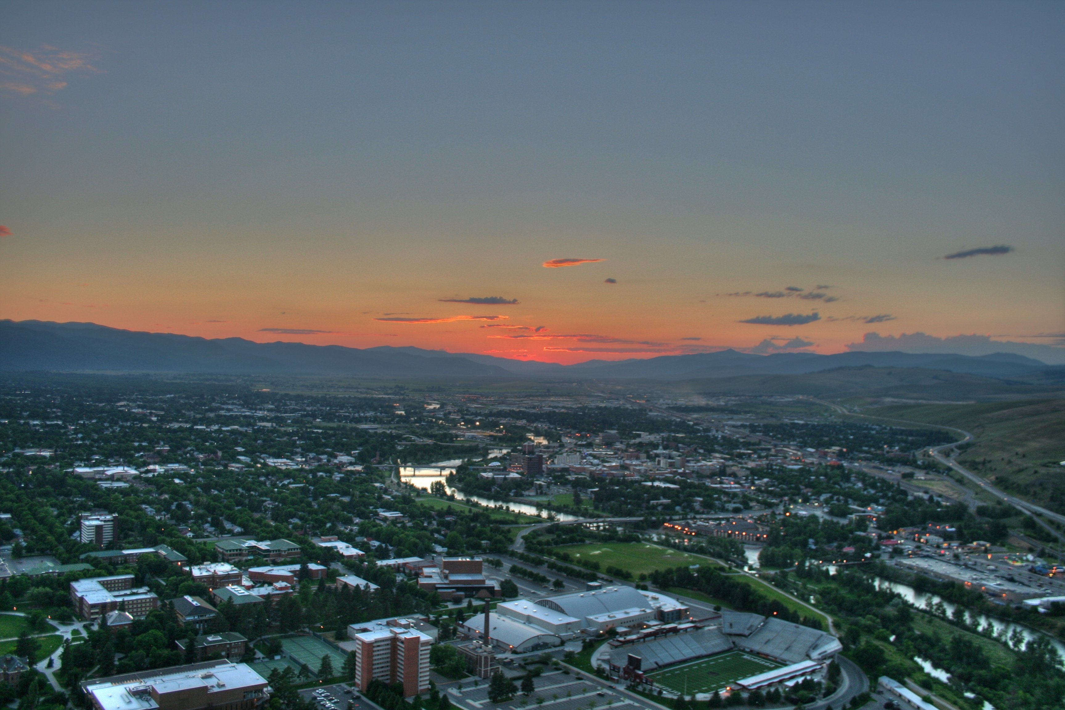 Climbed to "The M" with a tripod to play with my new Canon Digital Rebel XT by taking some sunset pics of Missoula and the surrounding scenery.